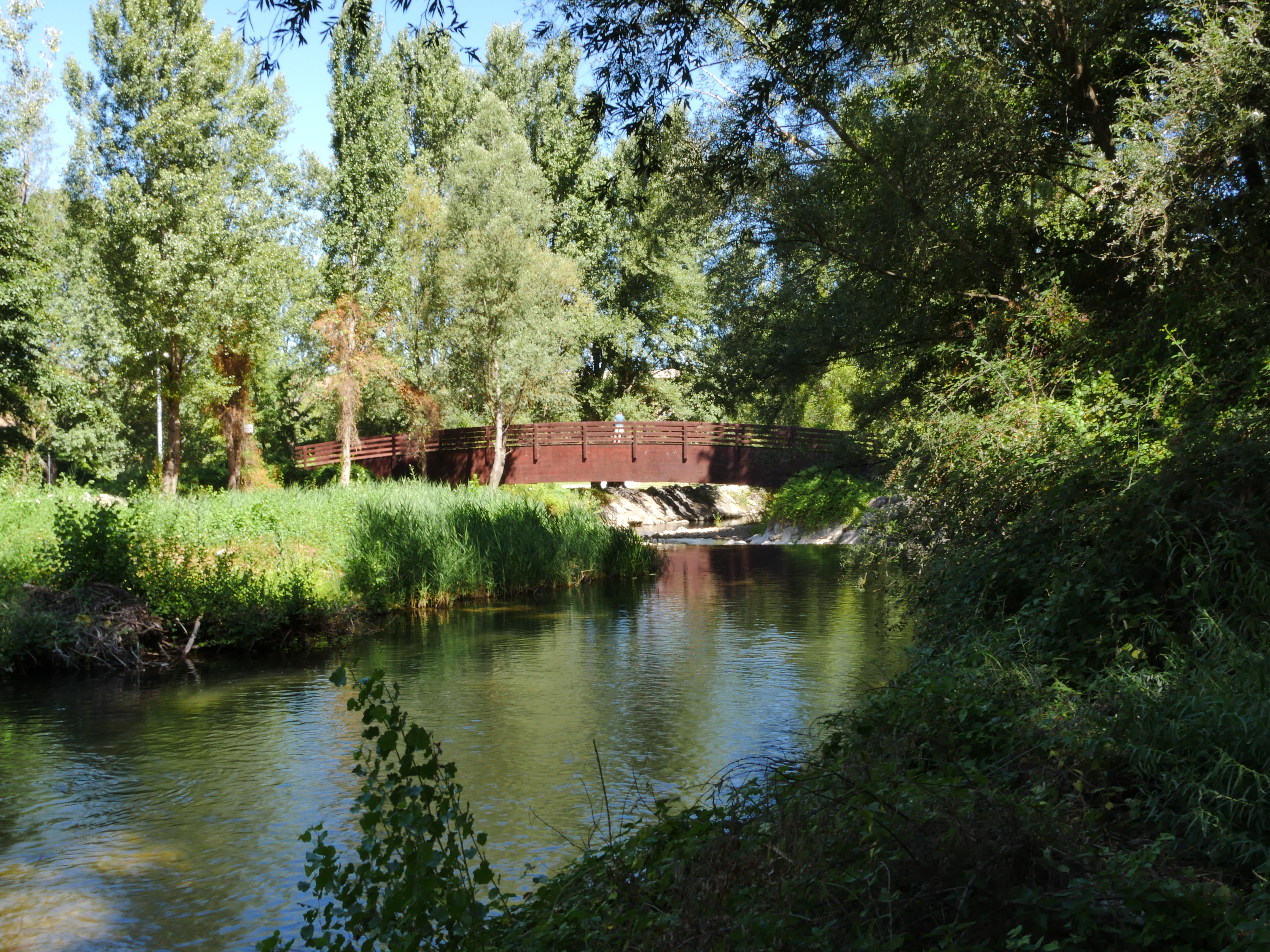 Pedestrian Bridge at Parque del Iregua, over the Iregua River in Logroño, La Rioja, Spain.